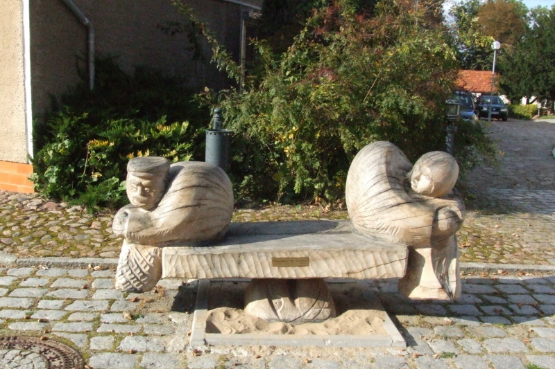 Figur on the market place from Arneburg